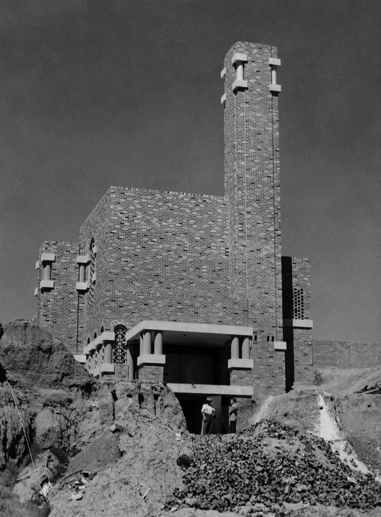 A newly constructed brick incinerator designed by the American architect Walter Burley Griffin, 34 (behind 36) West Thebarton Road, Thebarton, South Australia. From the State Library of South Australia web page (see "Source"): "The creator of the incinerator was Walter Burley Griffin (1876-1937). Distinctive decorative tilework adorns the incinerator. It was designed in 1935, completed in 1937 and decommissioned in 1964. It was used to burn garbage and household waste and was designed as an attractive building as councils were not keen to have it located in their council areas." The Australian Heritage Database states that the incinerator "incorporated a special reverberatory furnace, the main feature of which was that ash could be discharged at a level to fill in the pit and enable the area to be reclaimed. Garbage was tipped in at road level and disposal effected by gravitational burning."